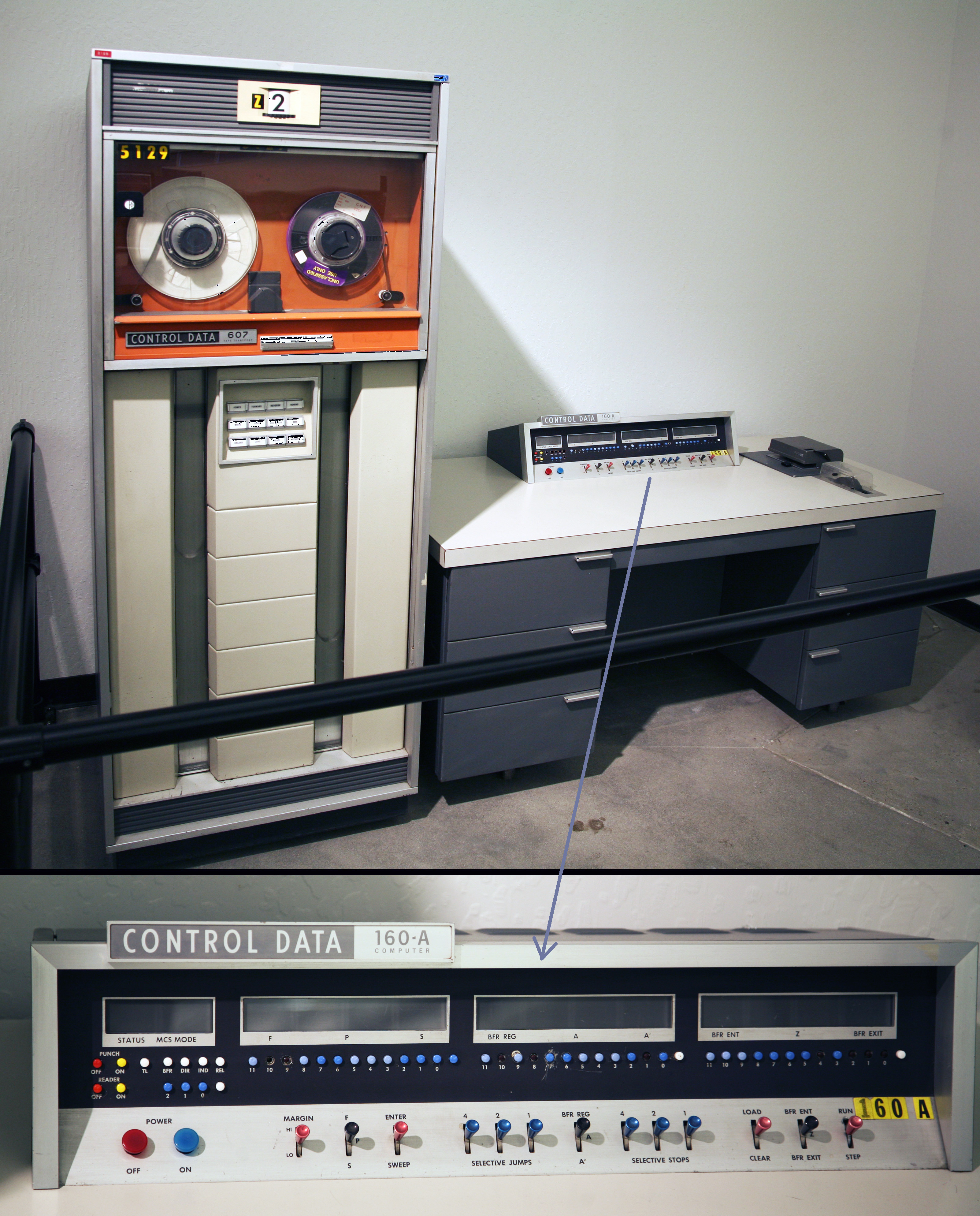 Control Data 160-A computer. Truly a "desk top" machine. The paper-tape reader and punch is on the right (input and output for the computer) and on the left is a 7-track tape unit that could record at 667 (later 800) bits-per-inch on a 2400 ft long tape. Central memory was 4K of 12-bit words, or effectively 8K characters - so you were doing well if you had a program that could handle 4000-character blocks on tape (half of central memory). This resulted in a block of about 6 inches plus another inch for the inter-block gap. That resulted in a rule of thumb - 4000 blocks of 4000 characters on a reel of tape, so approximately 16 Mbytes in today's terminology